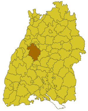 Map of Baden-Württemberg with the former county of Calw before 1973